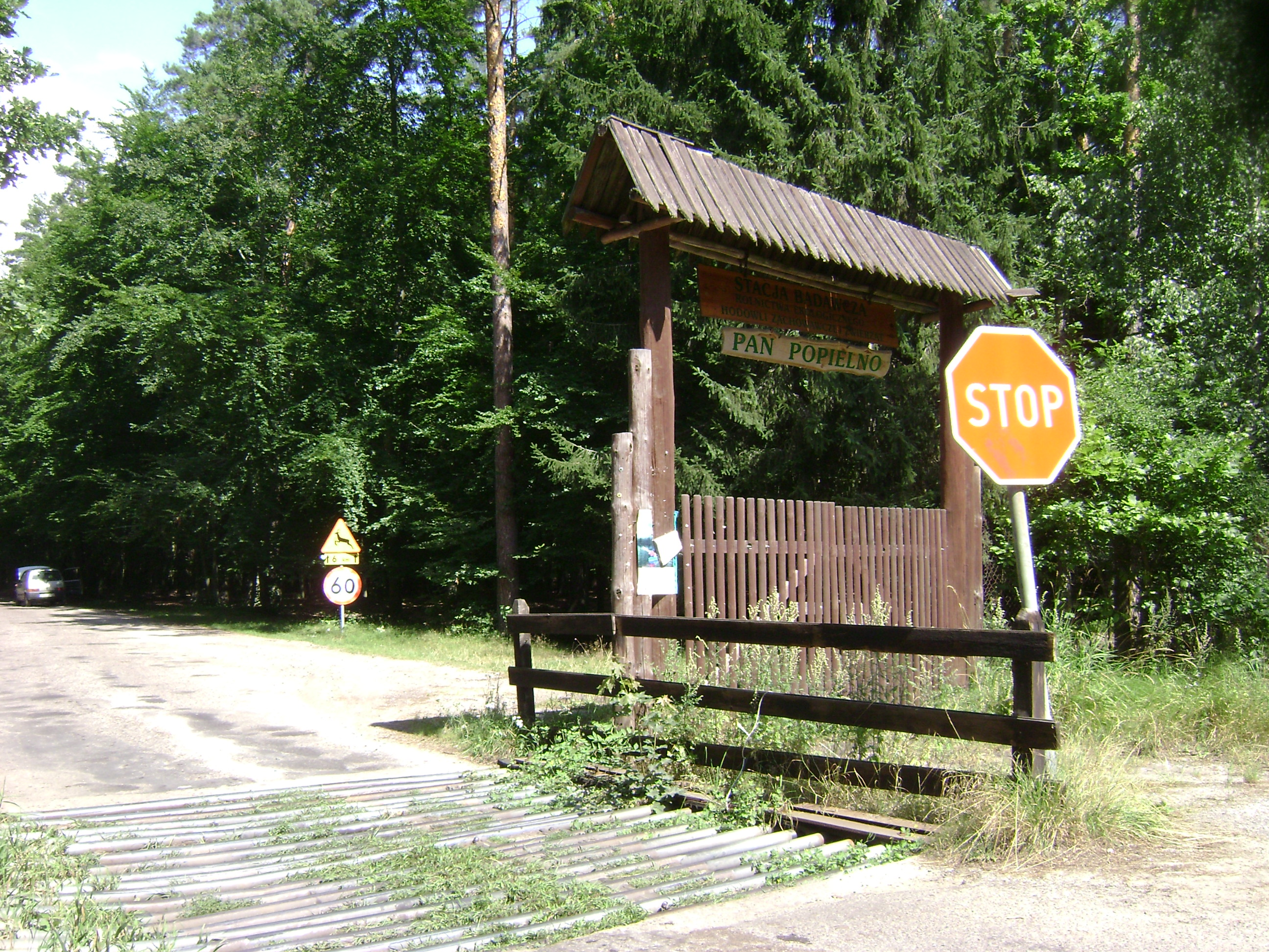 Poland. Puszcza Piska. Gmina Ruciane-Nida.